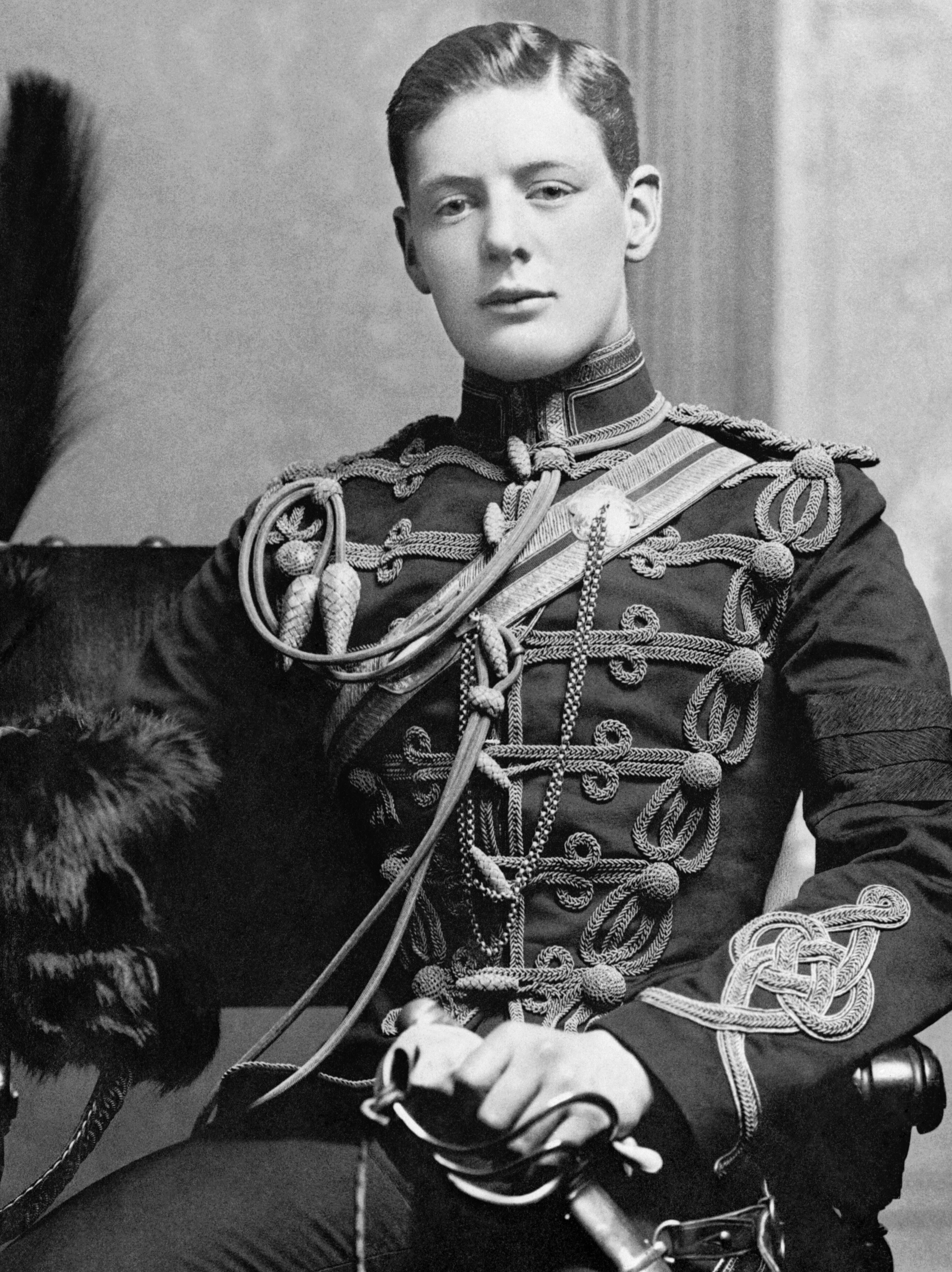 20-years-old Winston Churchill as a Subaltern in the 4th Hussars.